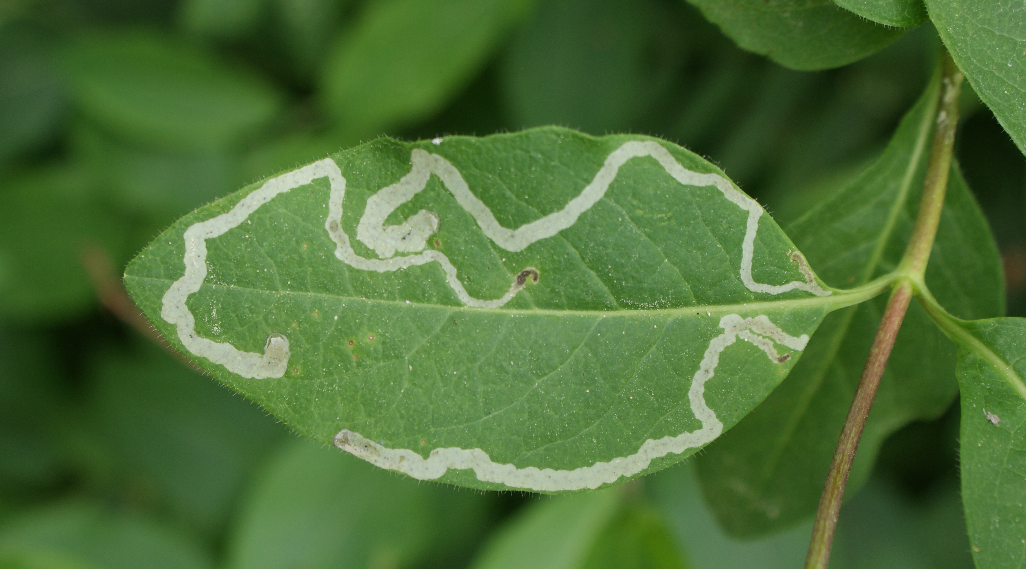 Leaf mining in the Lonicera periclymenum leaf (Diptera)